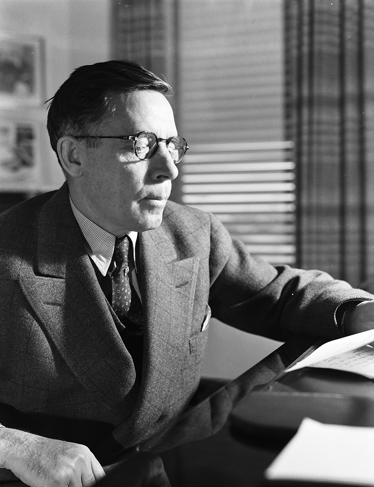 Title: Halliburton, Erle P., Halliburton Oil Well Cementing Co. Creator: Robert Yarnall Richie Date: February 1940 Part Of: Robert Yarnall Richie photograph collection Physical Description: 1 negative film: black and white; 13 x 10 cm. Rights: Please cite Southern Methodist University, Central University Libraries, DeGolyer Library when using this image file. A high-quality version of this file may be obtained for a fee by contacting . For more information, see: View the Robert Yarnall Richie Photograph Collection